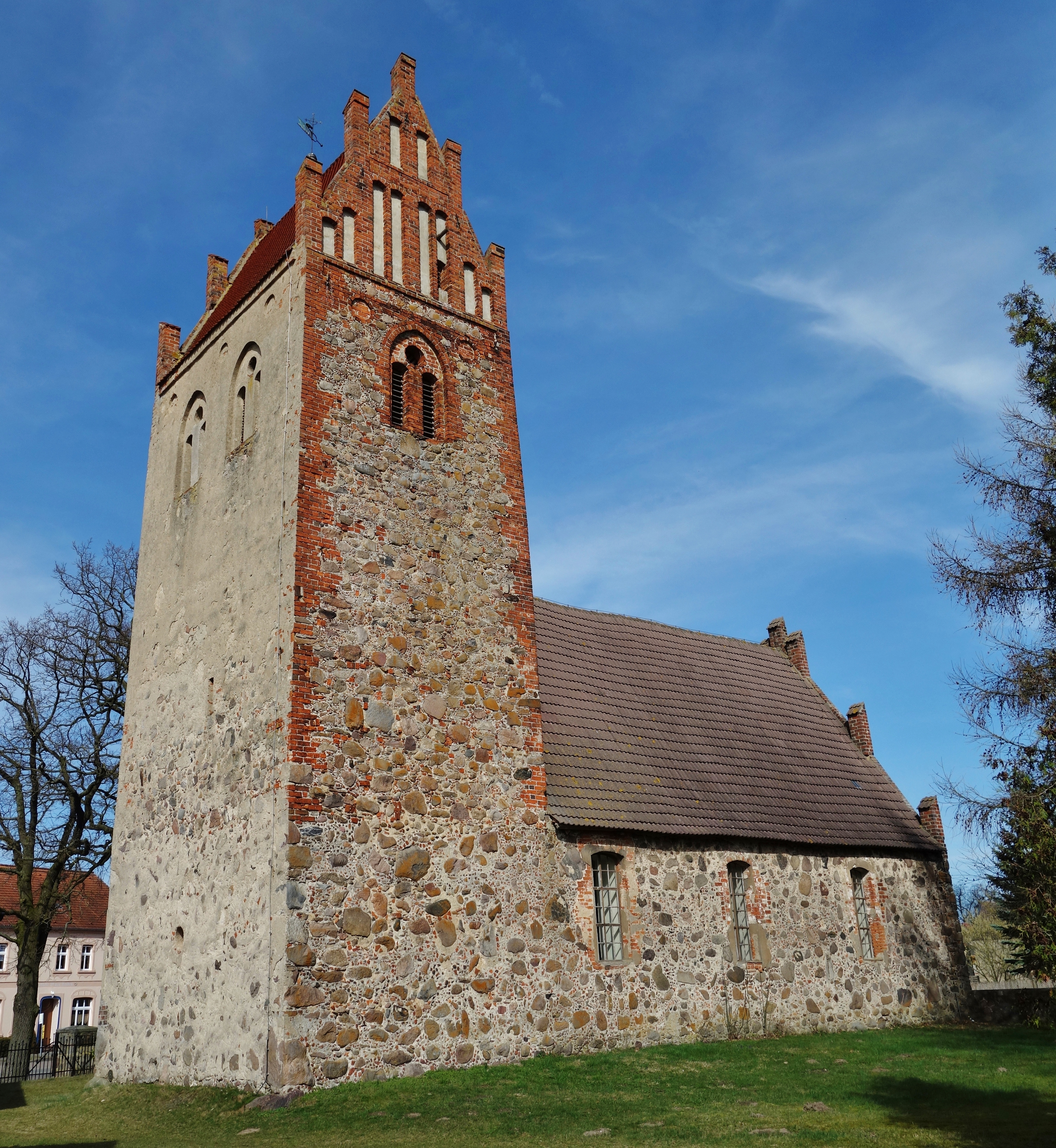 South-western view of church in Barenthin, Gumtow municipality, Prignitz district, Brandenburg state, Germany